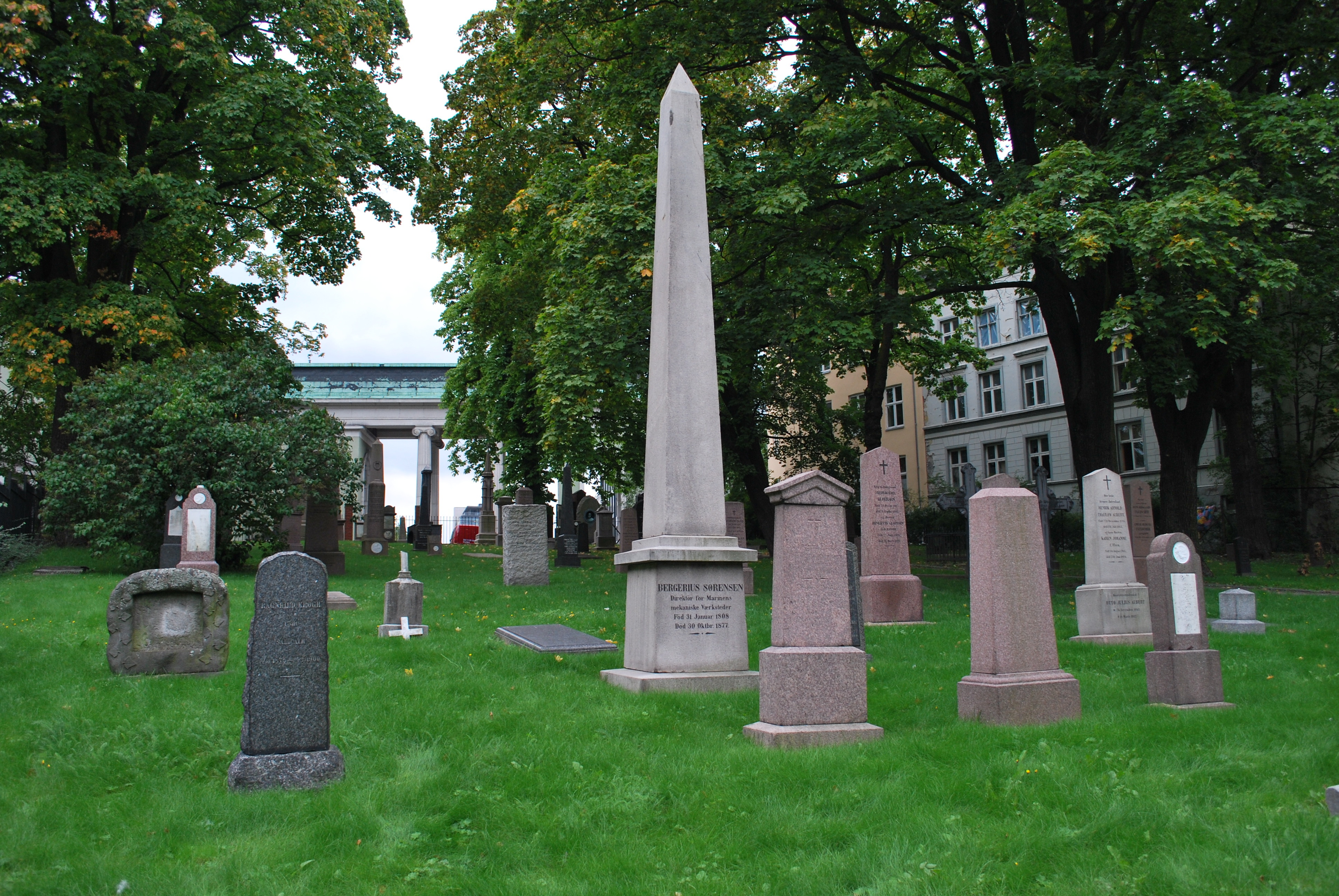 Christ cemetery, Oslo, established 1654